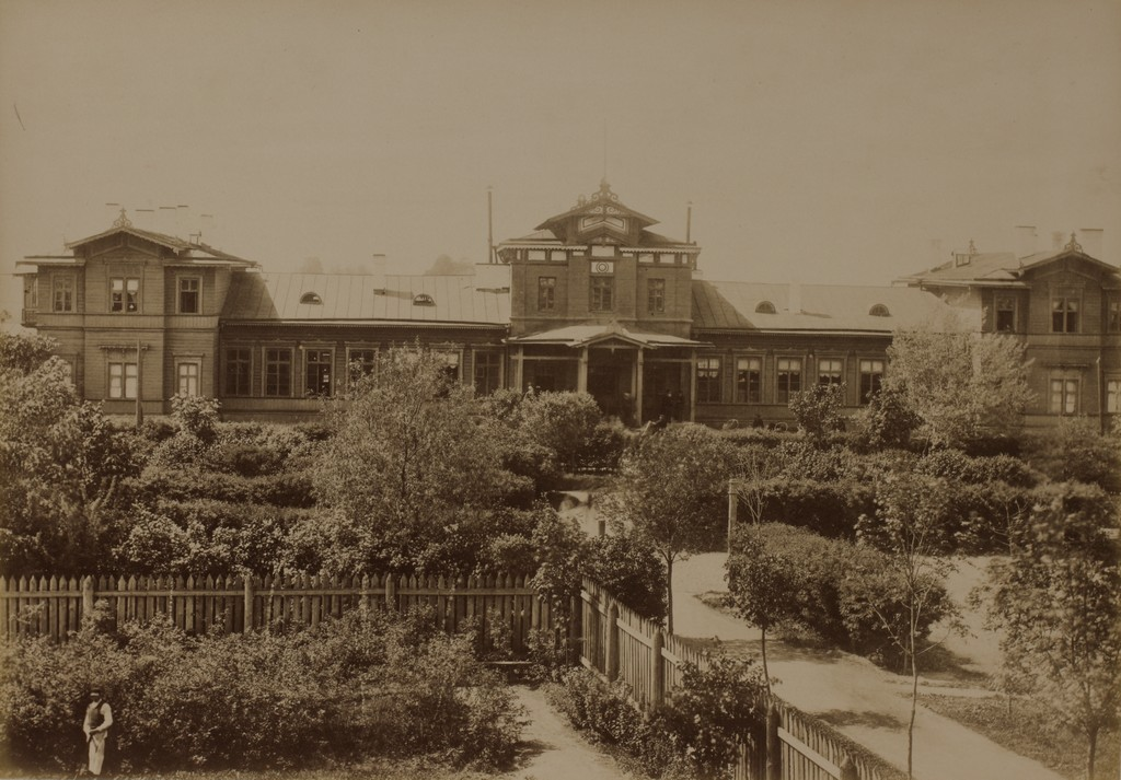 Tartu train station, street side view